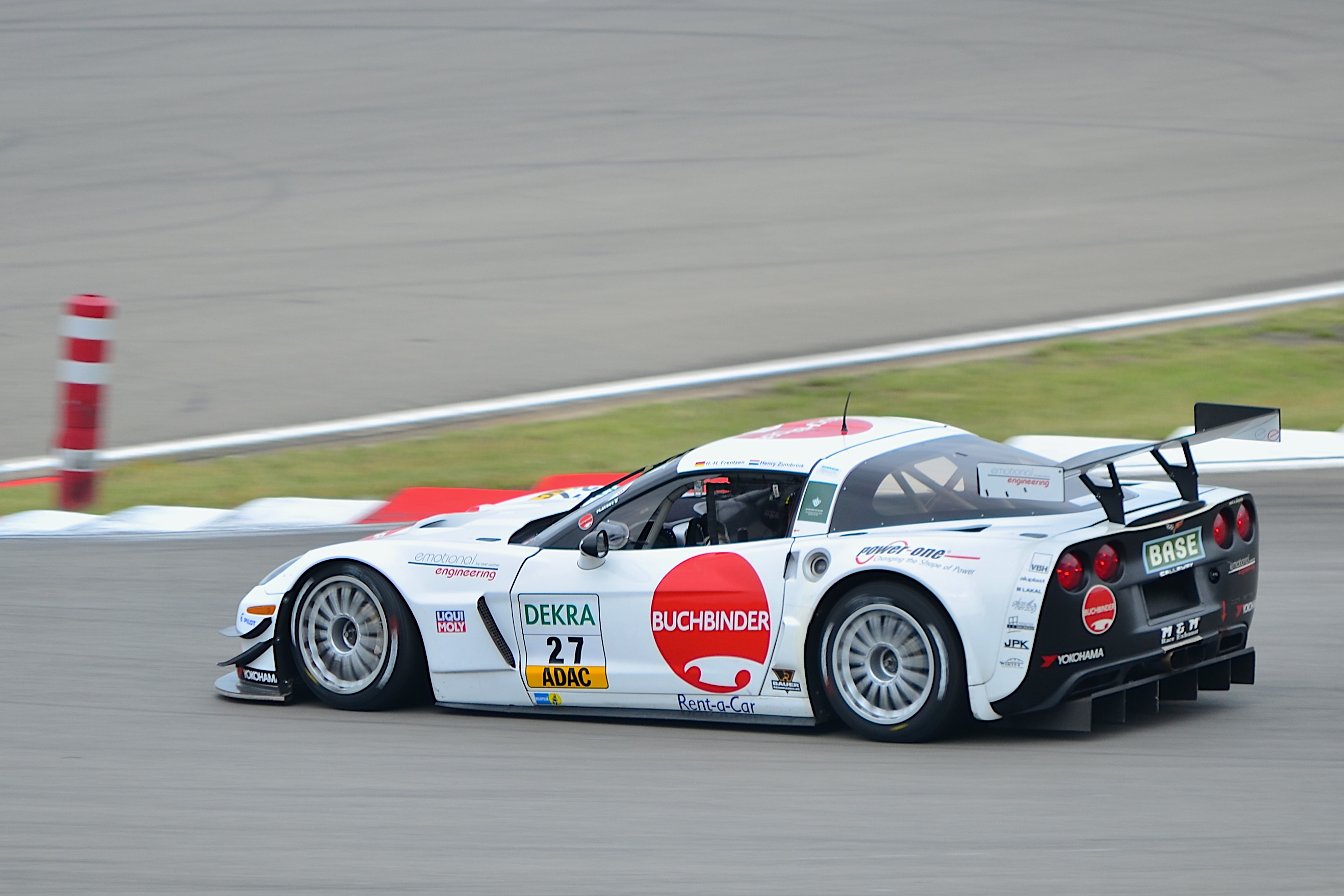 Photo taken during the 13th run of the ADAC GT Masters Championship at the Nürburgring Grand Prix Course. Driver: Heinz-Harald Frentzen for Callaway Competition